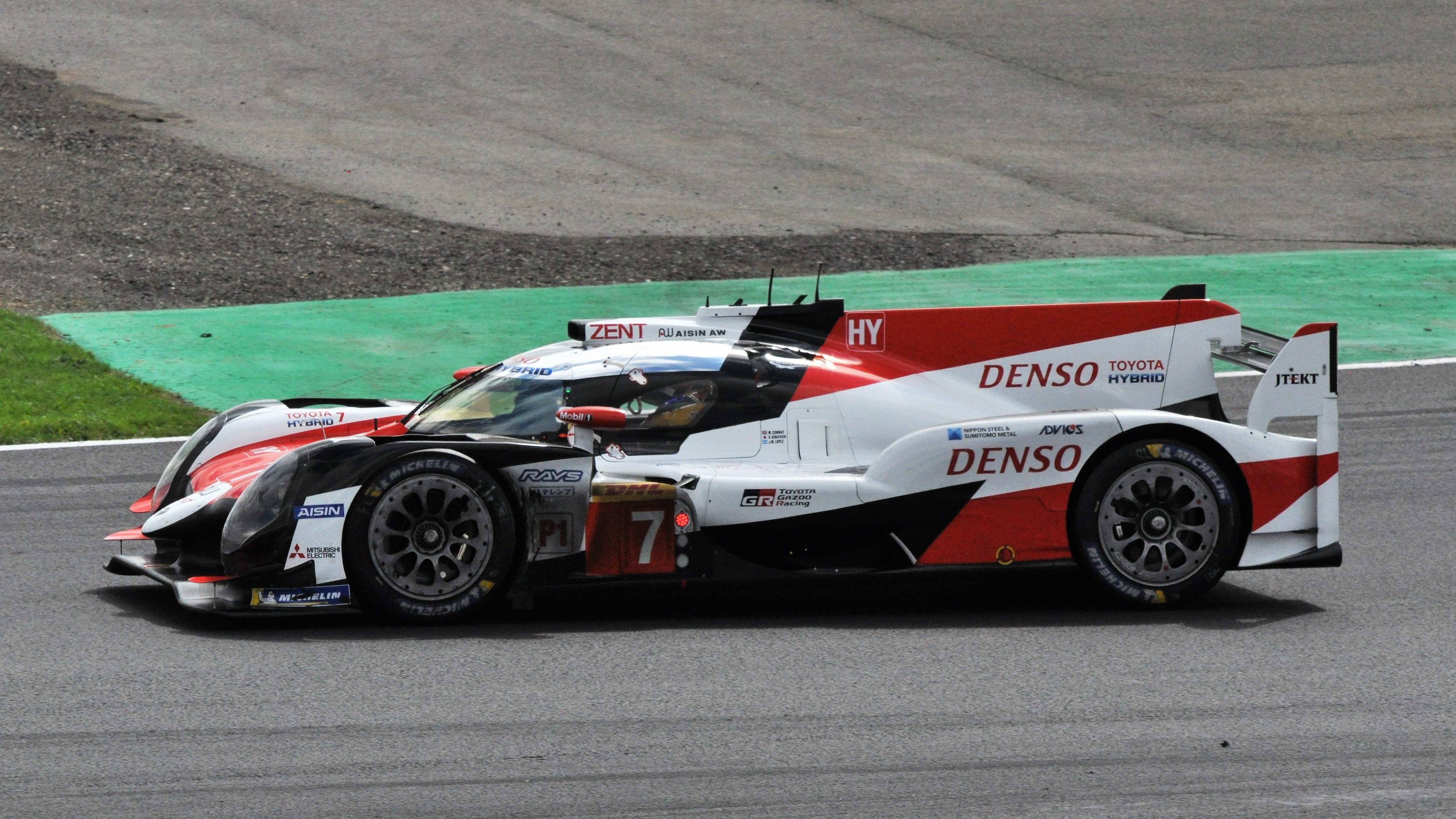 British driver Mike Conway, running in first place, pilots his Toyota TS050 car into Village corner, during the 2018 6 Hours of Silverstone race. Conway and his co-drivers, Kamui Kobayashi and José María López, eventually finished in second place, but were subsequently disqualified as their car infringed the technical regulations.